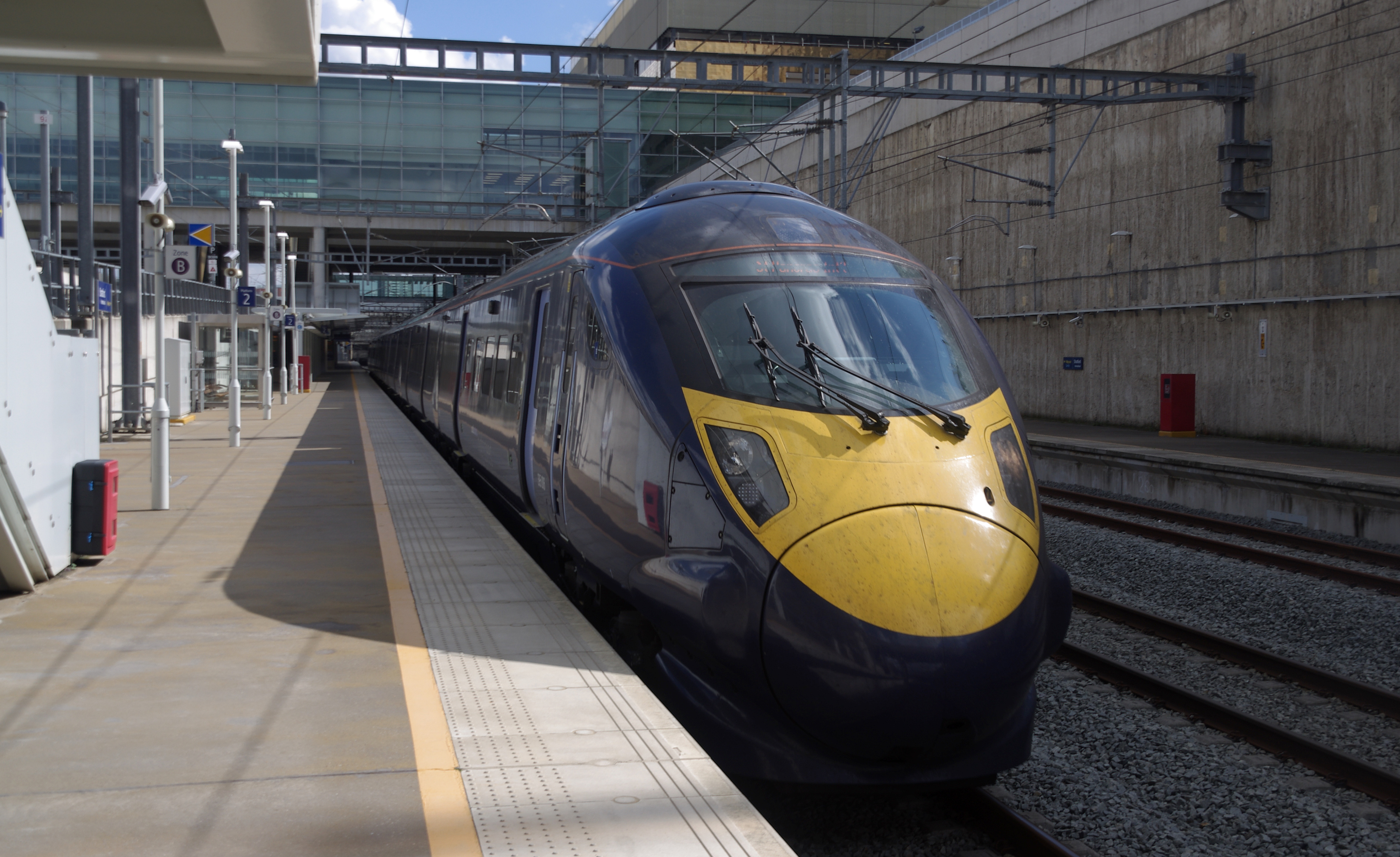 Southeastern Class 395 "Javelin" High Speed EMU 395006 departs Stratford International station with a service to St Pancras.